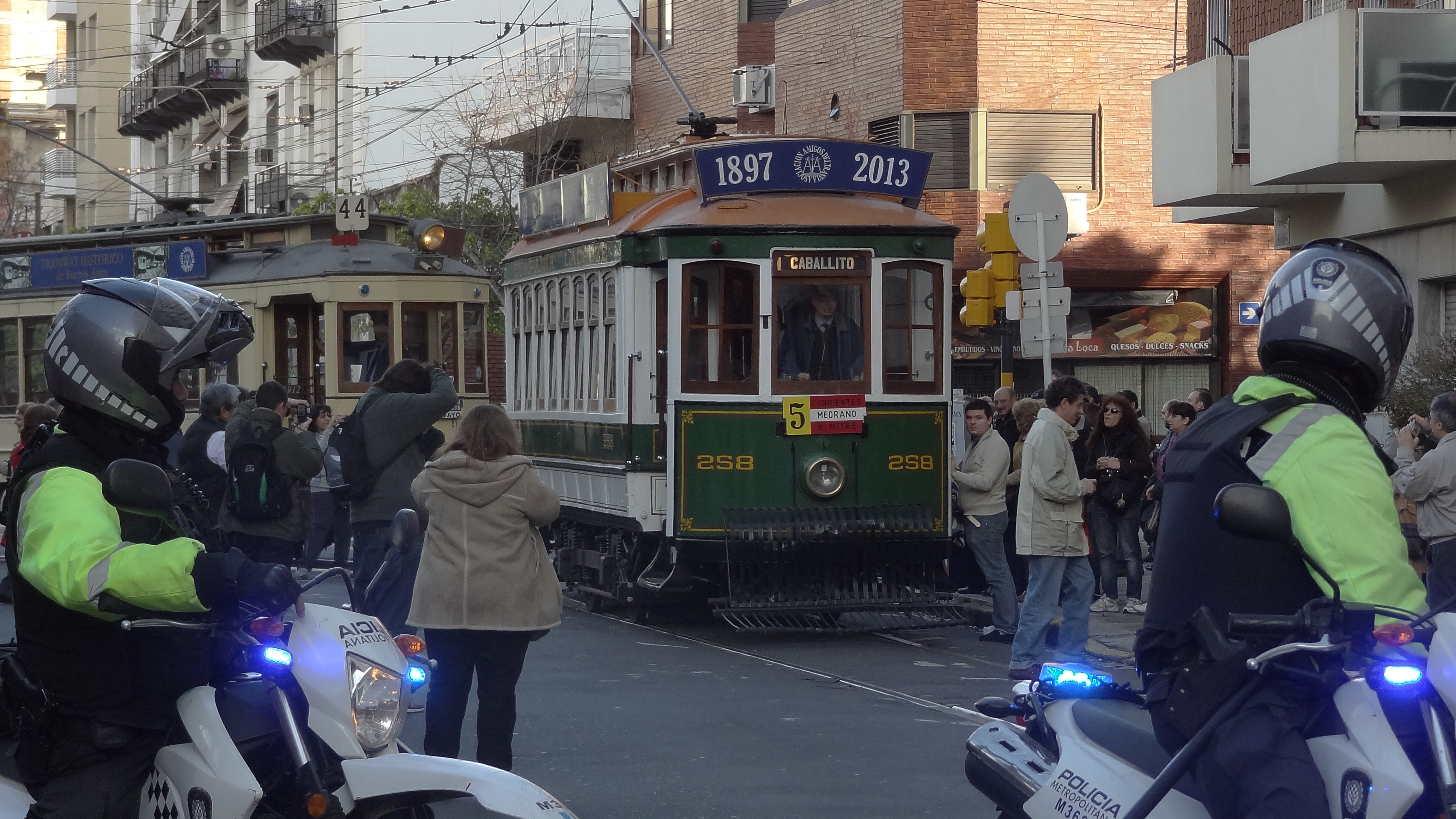 The Association of Friends of the Tramway celebrating 150 years of trams in Buenos Aires.